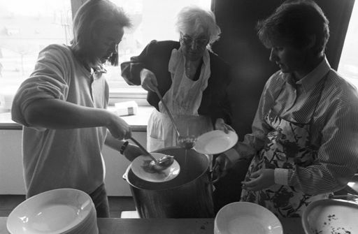 Local paper #25: Food Distribution